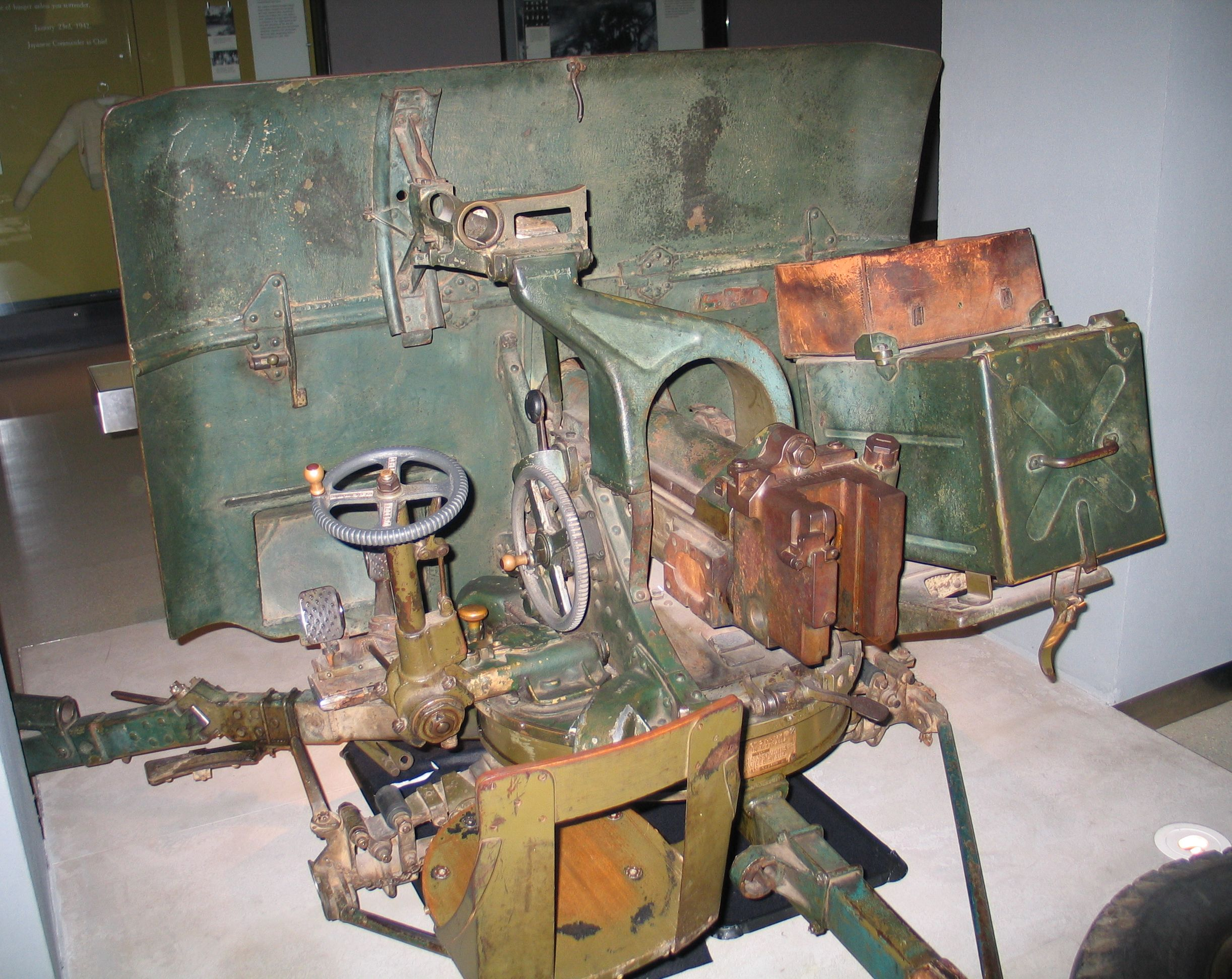 QF 2 pounder anti-tank gun, in Australian War Memorial, Canberra, Australia.